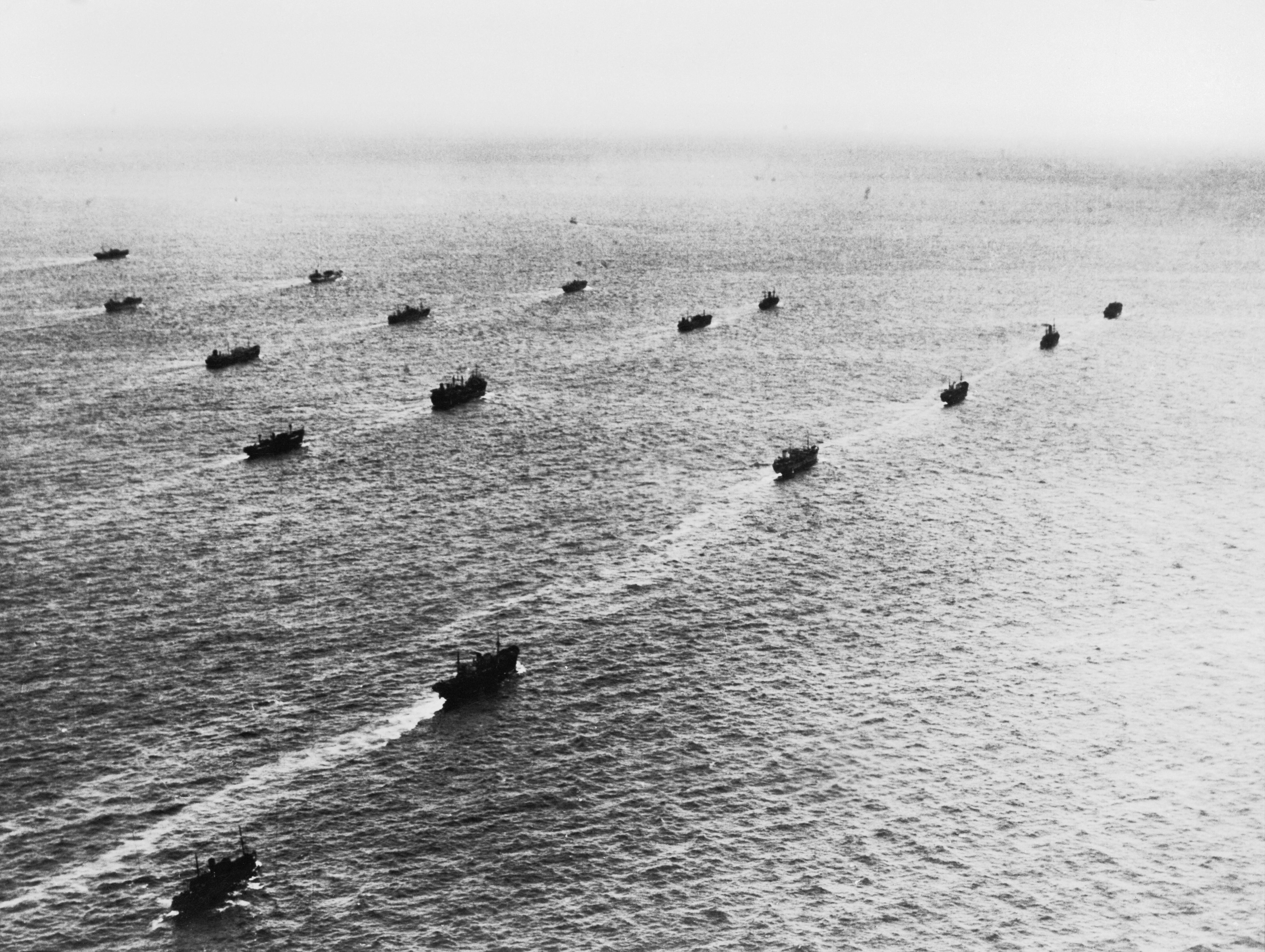 A British Convoy Under the Protection of Royal Air Force Coastal Command, 1943 The convoy at sea.